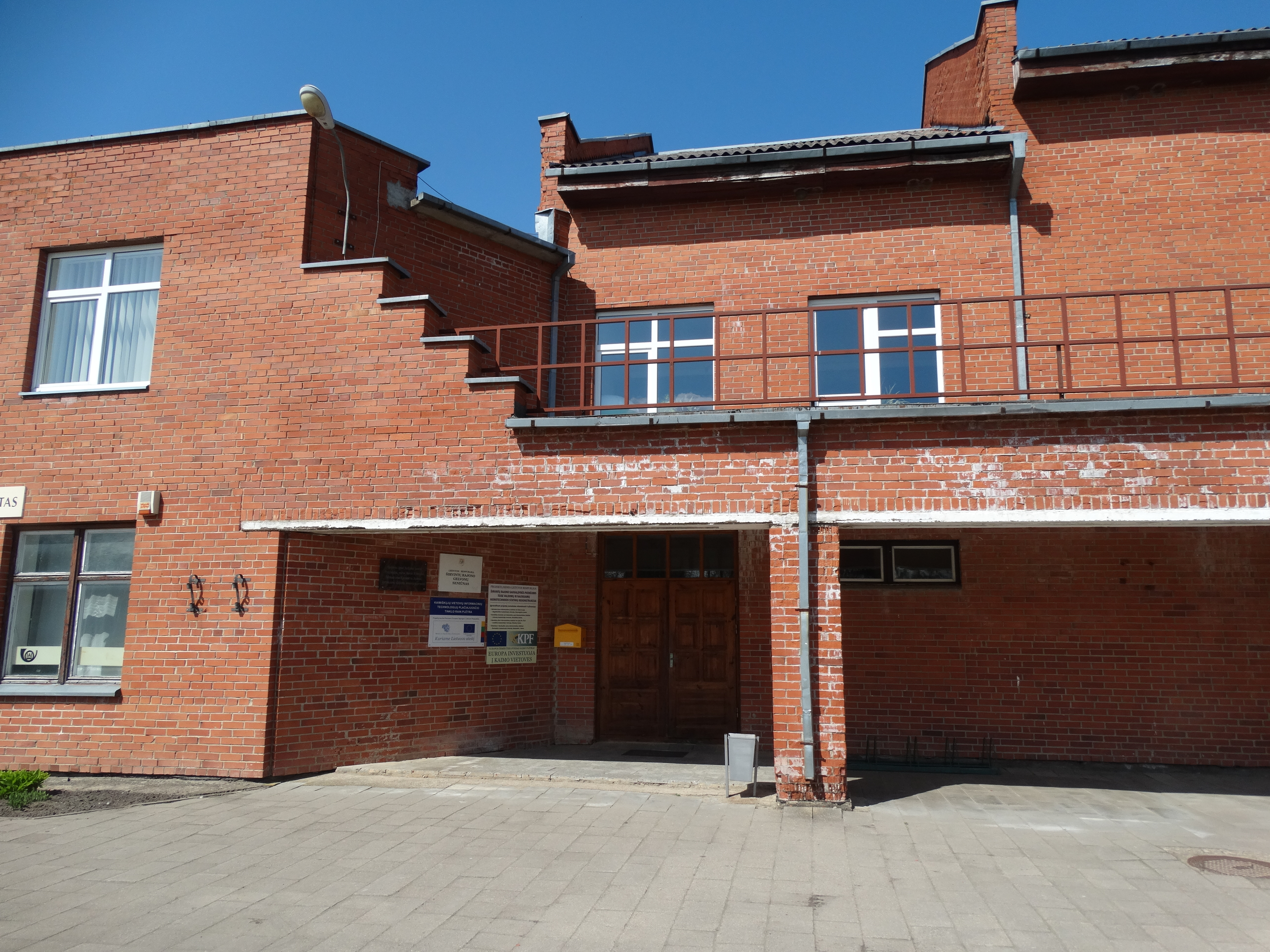 Eldership, Gelvonai, Širvintos District, Lithuania